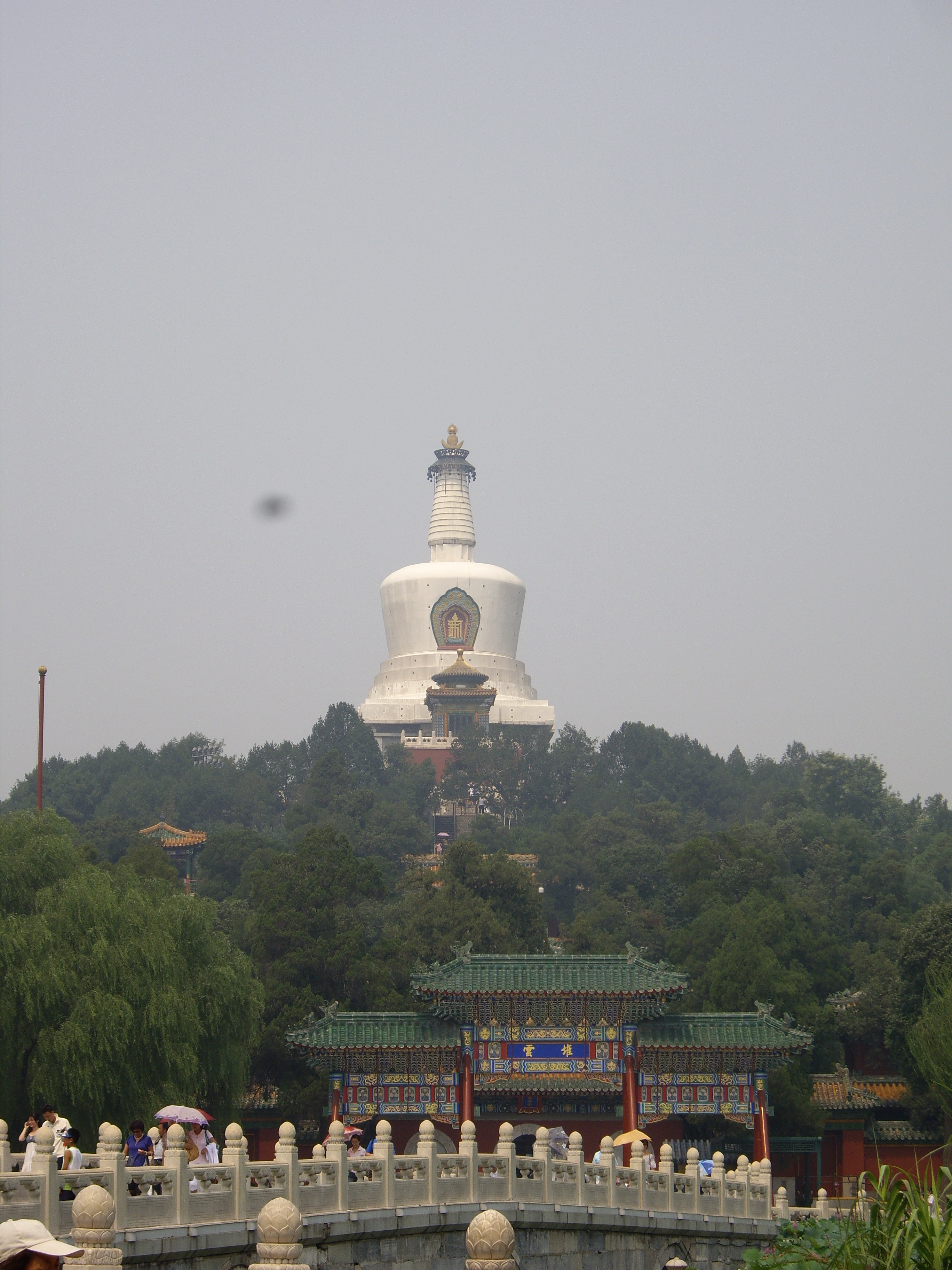 BEIJING BEIHAI White Pagoda Photo by Vincent